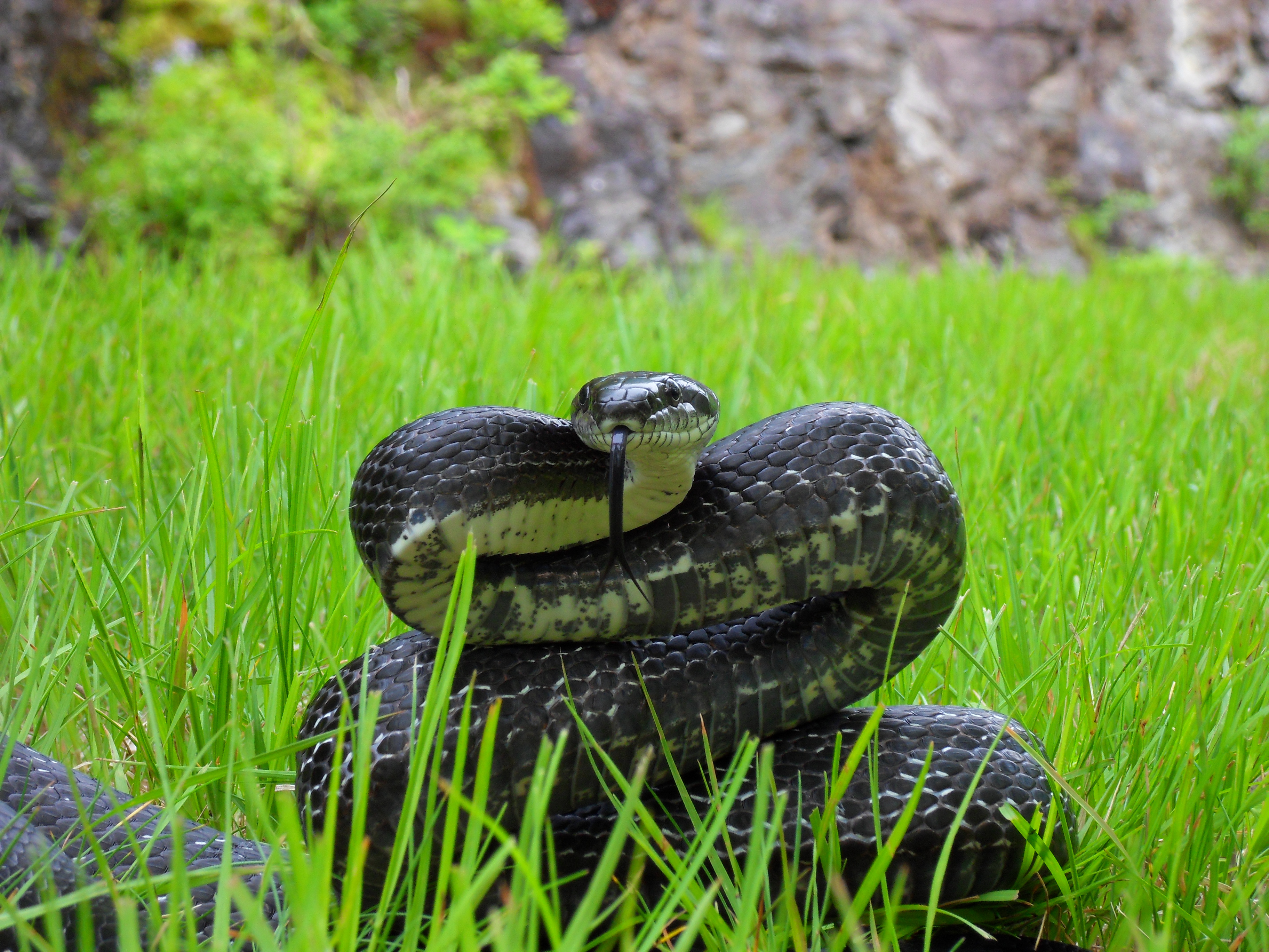 Black Rat Snake, Asheville, NC